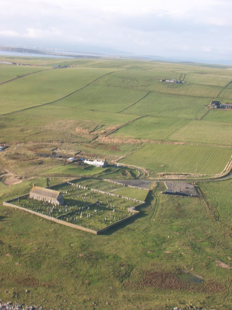 Cemetery, Kirkhouse Taken from a glider, looking West over South Ronaldsay.